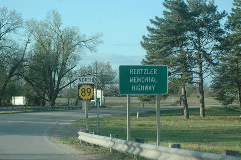 The start of northbound K-89 at the Halstead city limits.